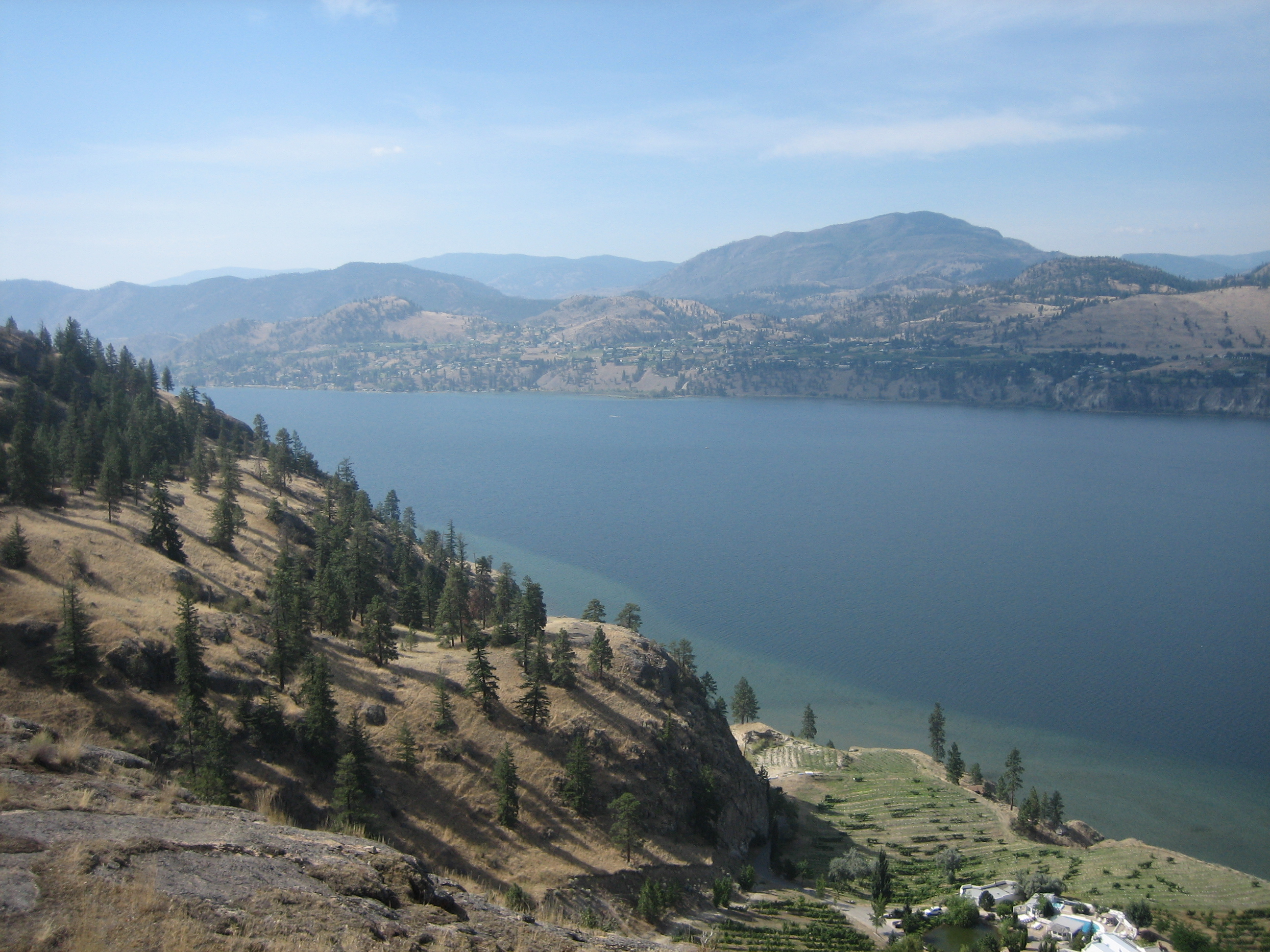 A view to the southwest from the eastern shore of Skaha Lake, in the Okanagan Valley of British Columbia, Canada.